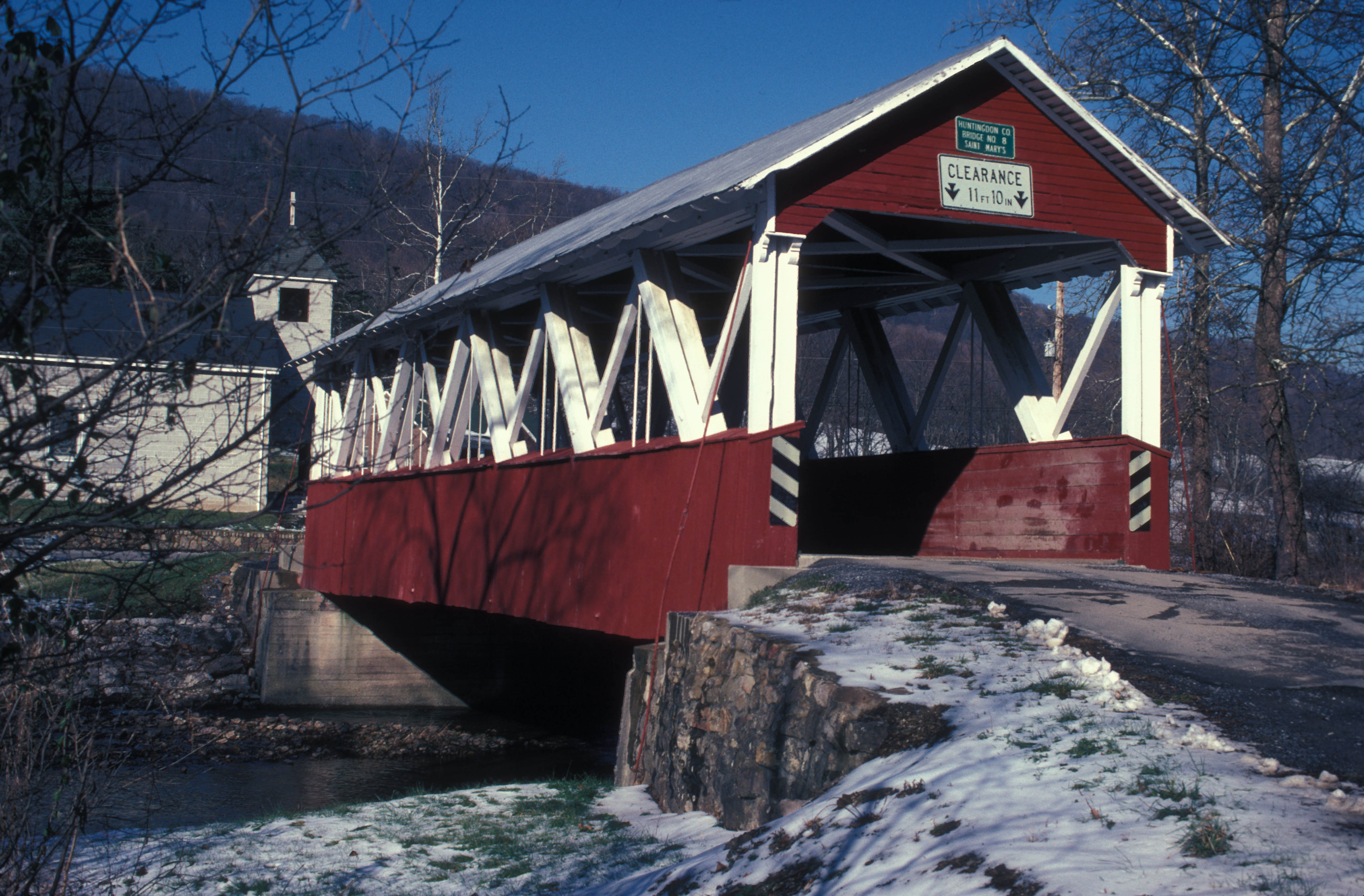 ST. MARY’S/SHADE GAP OVER SHADE OR BROAD TOP CREEK; 1889 66’ HOWE